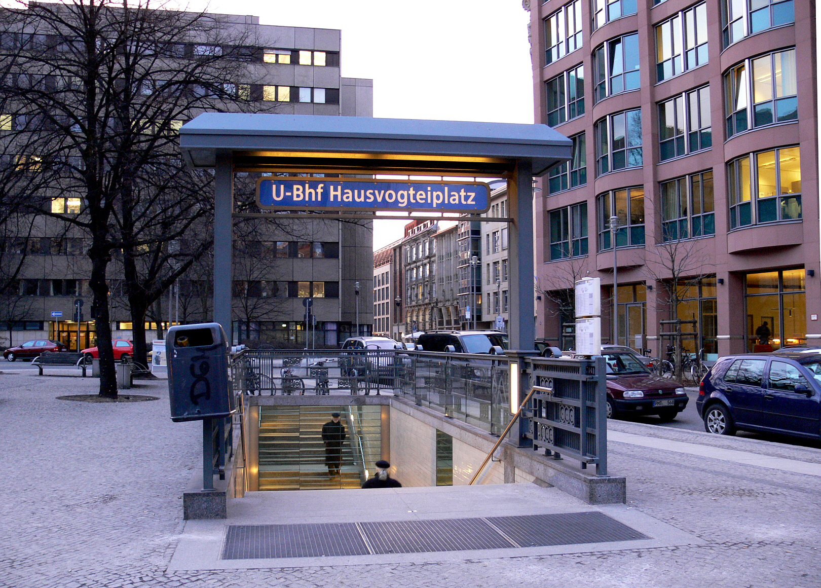 The Berlin U-Bahn station Hausvogteiplatz, Line U2